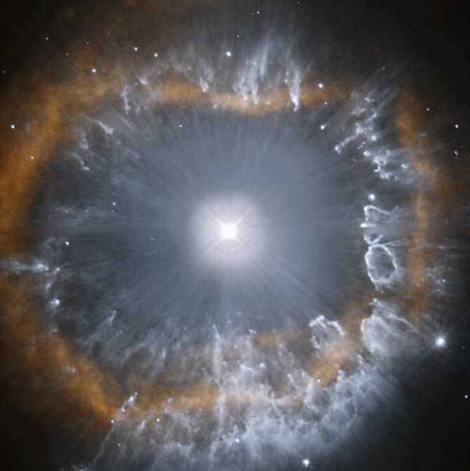 From the Hubble Legacy Archive - Red Channel (Hydrogen alpha): hst_05149_01_wfpc2_f658n_pc_sci Green Channel: pseudo Blue Channel: hst_05149_01_wfpc2_f547m_pc_sci Processing by Judy Schmidt